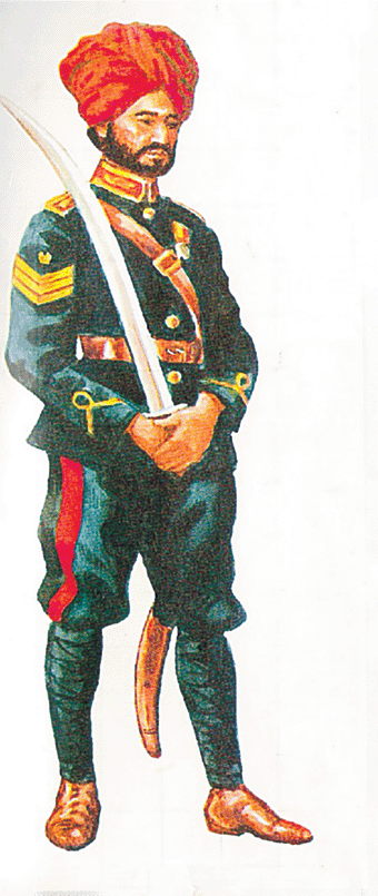 A havildar of Bombay Presidency Army Artillery, 1882